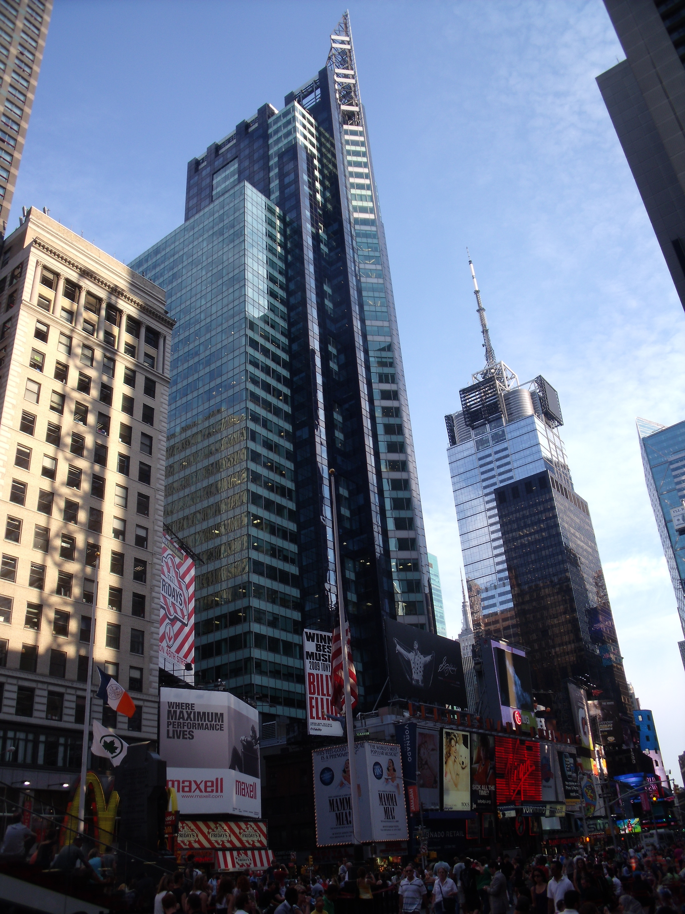 from Times Square